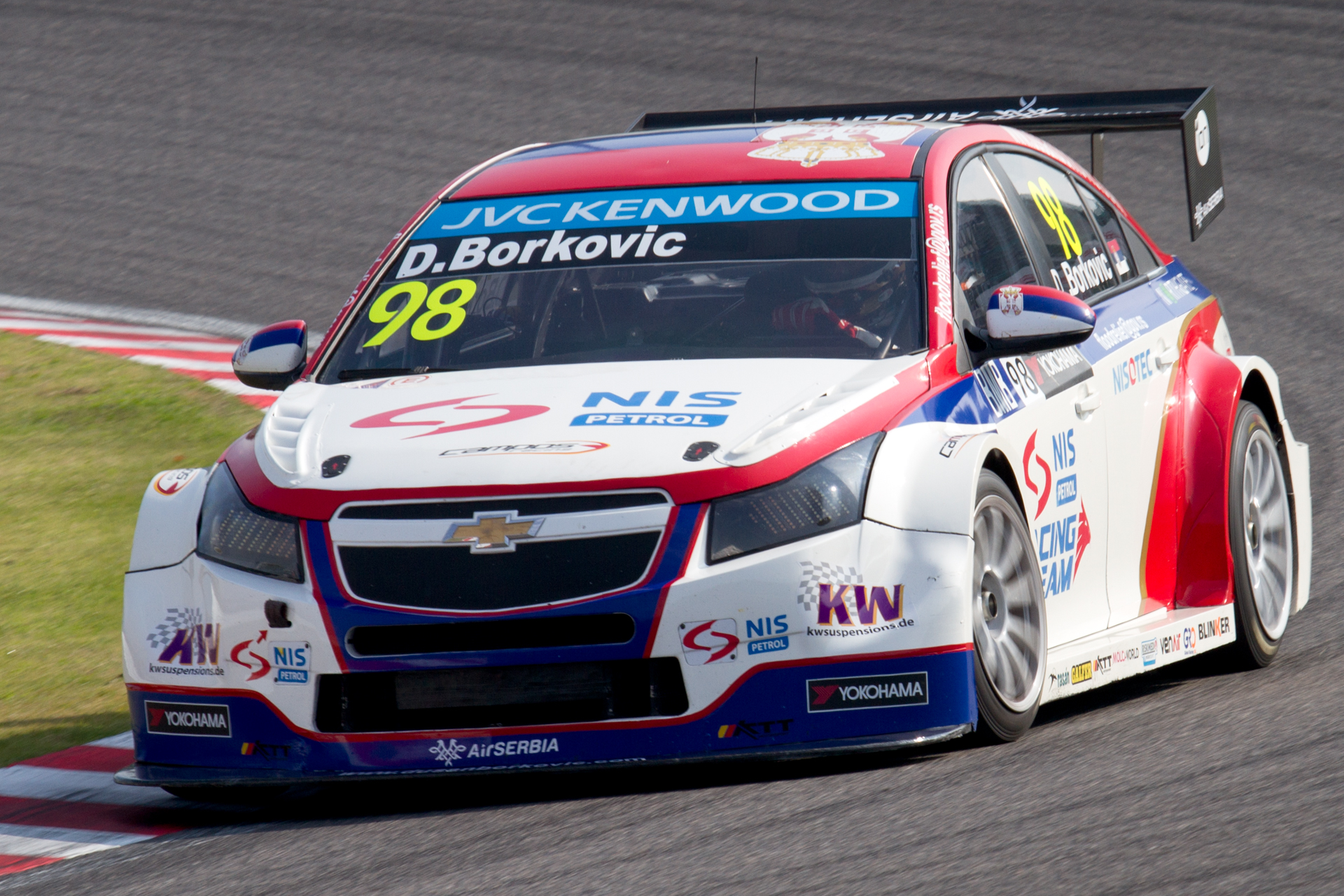 World Touring Car Championship 2014 Race of Japan: Dušan Borković (Campos Racing)